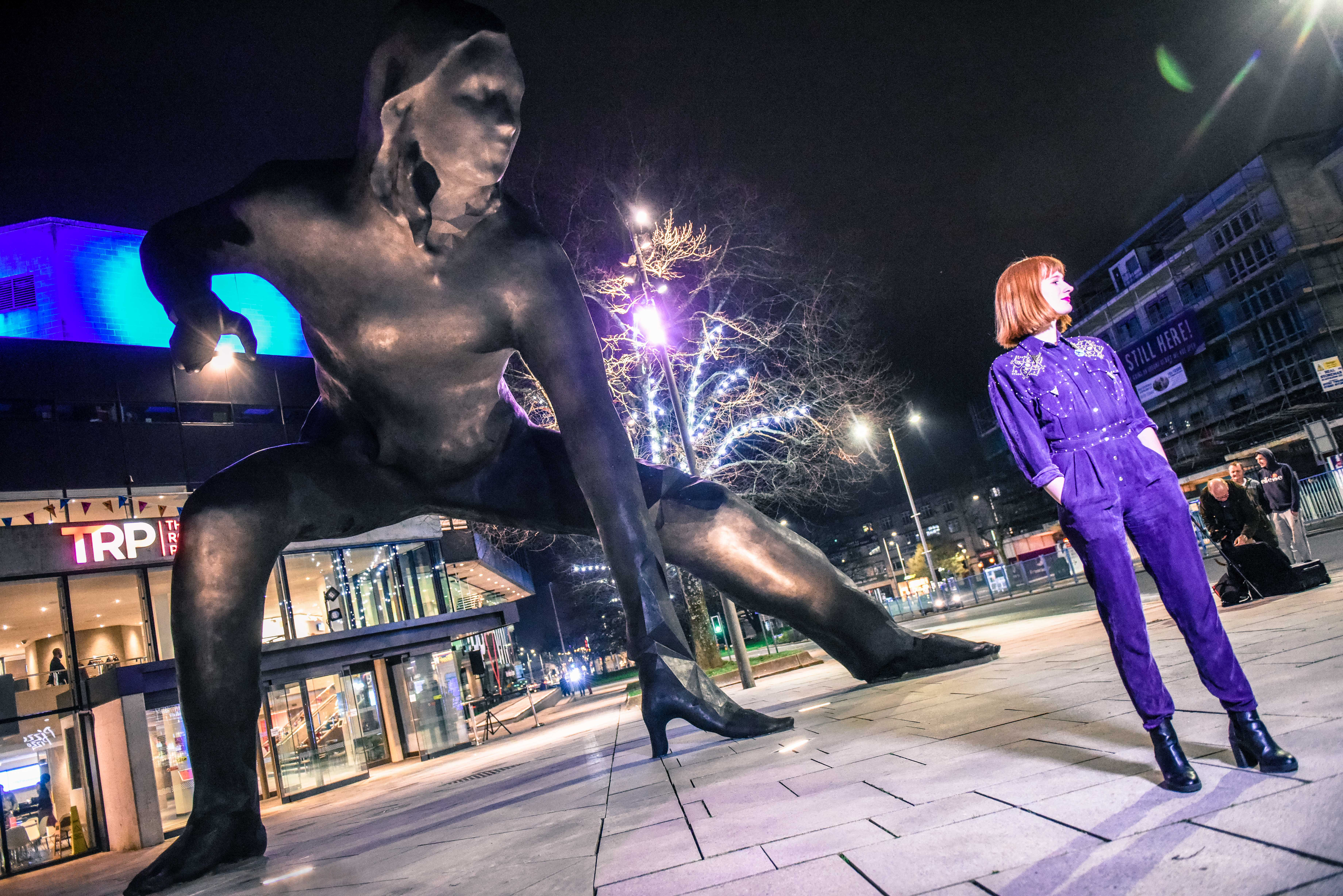 Messenger Statue Reveal at Theatre Royal Plymouth - 22nd March 2019, with actor Nicola Kavanagh who originated the pose. By Scott Calnon Photography